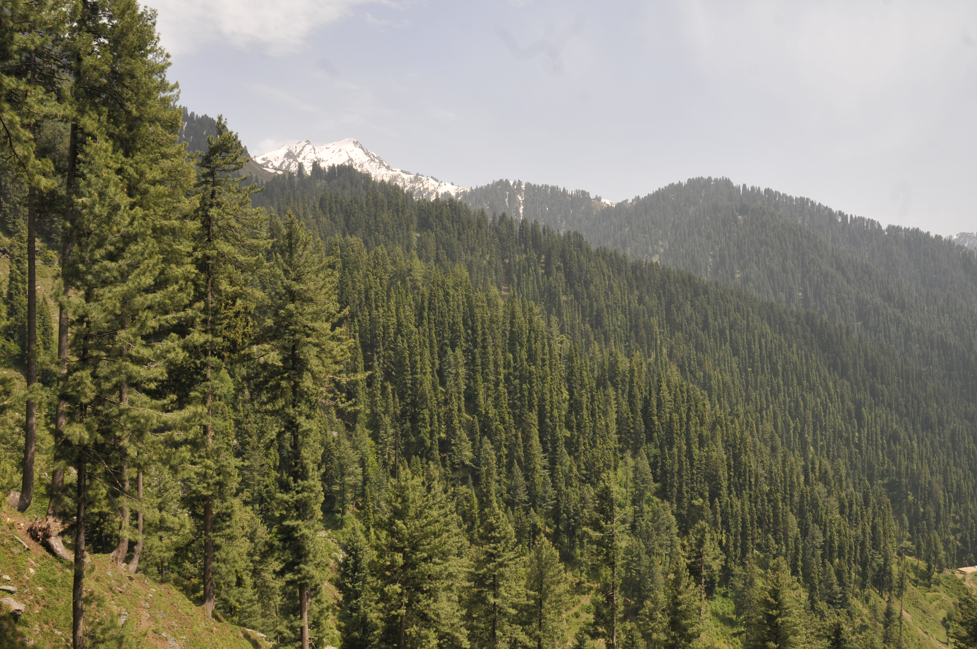 Mix conifer forest of Swat situated at at altitude of 3000 m; Pinus wallichiana in foreground.